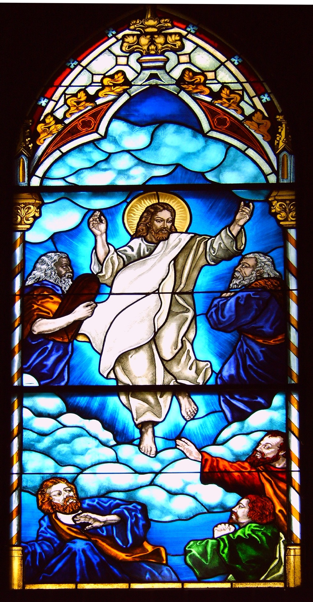 Poland, Mielno, church, stained glass - Transfiguration of Jesus